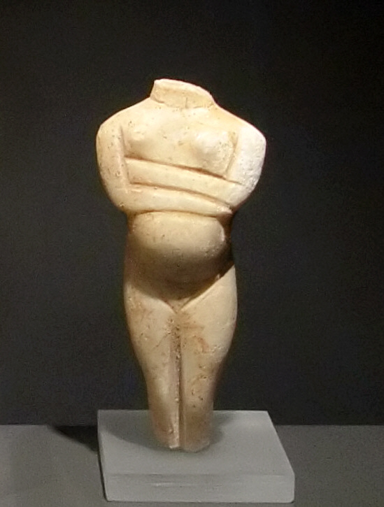 pregnant cycladic figurine, Badisches Landesmuseum, Karlsruhe, Germany, Inventory# 71/30, marble, early bronze age, early cycladic periode II, fragment, spedos type, H 10.7 cm